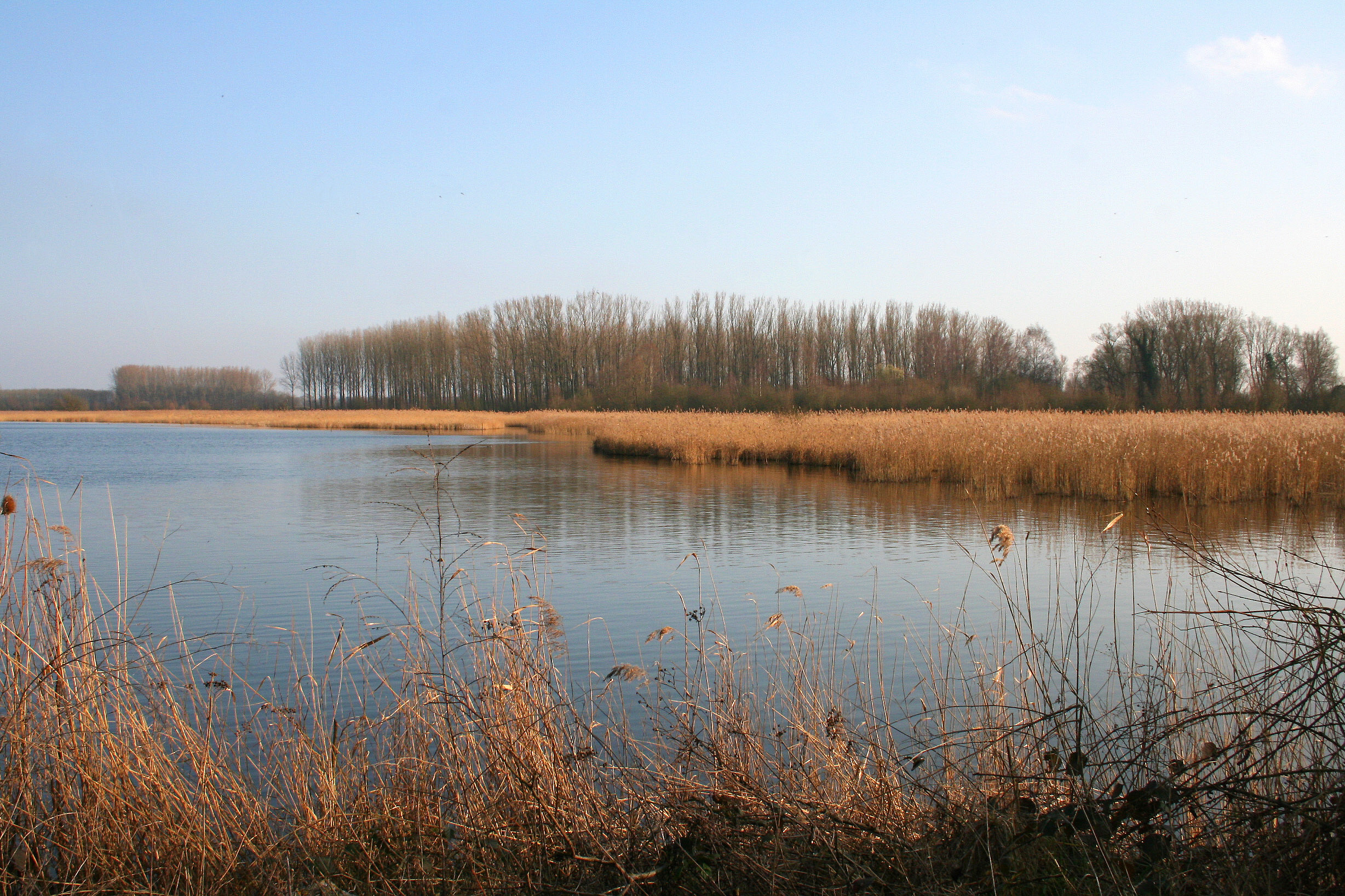 Harchies (Belgium), section of the pound and reed bed located at the western side of the Pommerœul dam. Walon: Harchîyes (Bèljike), paurtîye do vèvî èt tchamp d’rosês si trovant au coutchant dol dîgue di Pomereul.